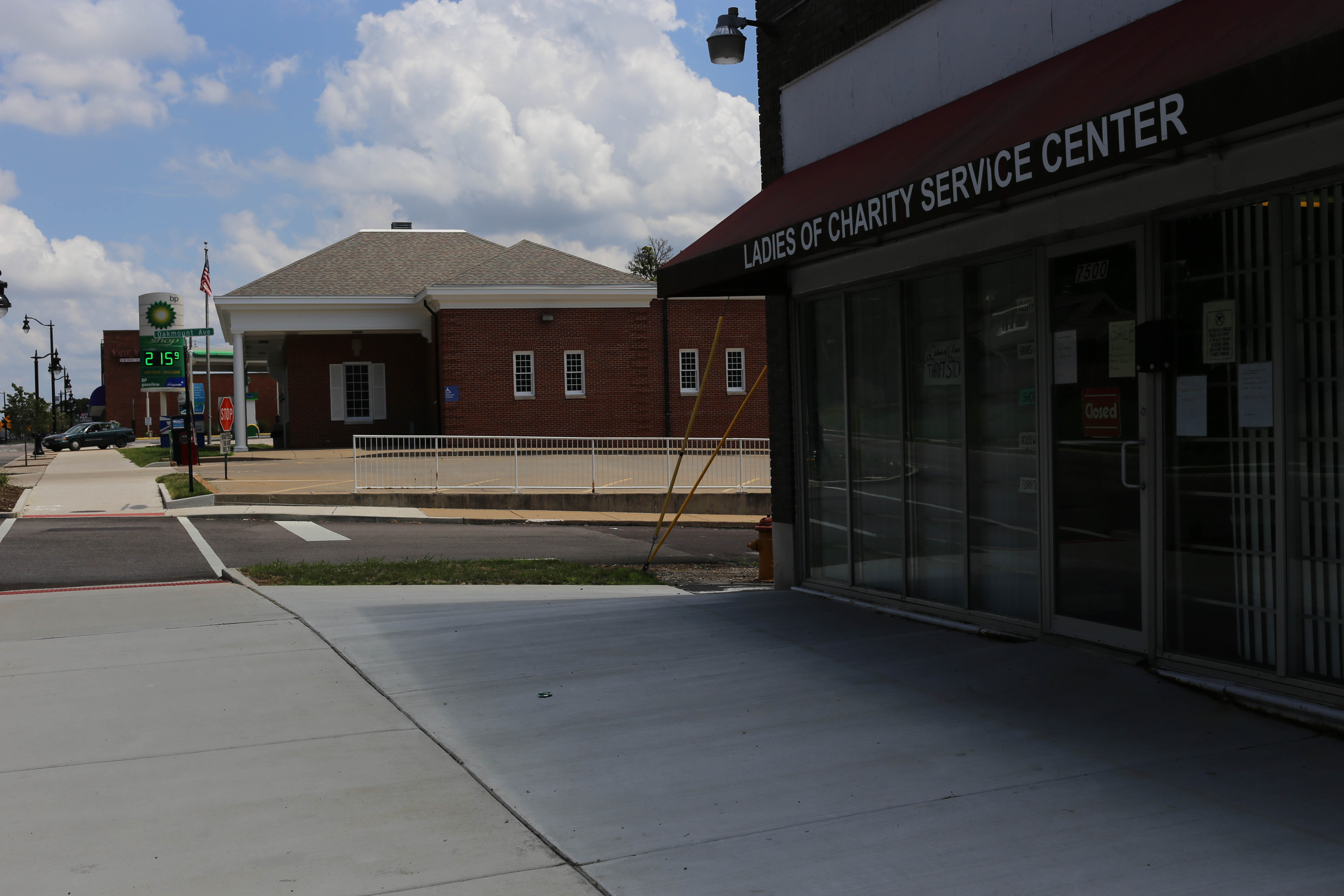 Ladies of Charity Service Center